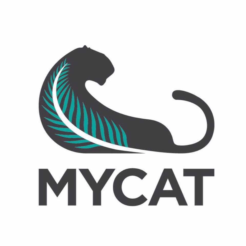 The silhouette of the Malayan tiger represent its elusive and precarious existence. The palm leaves symbolise that the survival of the tiger is connected to the entire ecosystem.